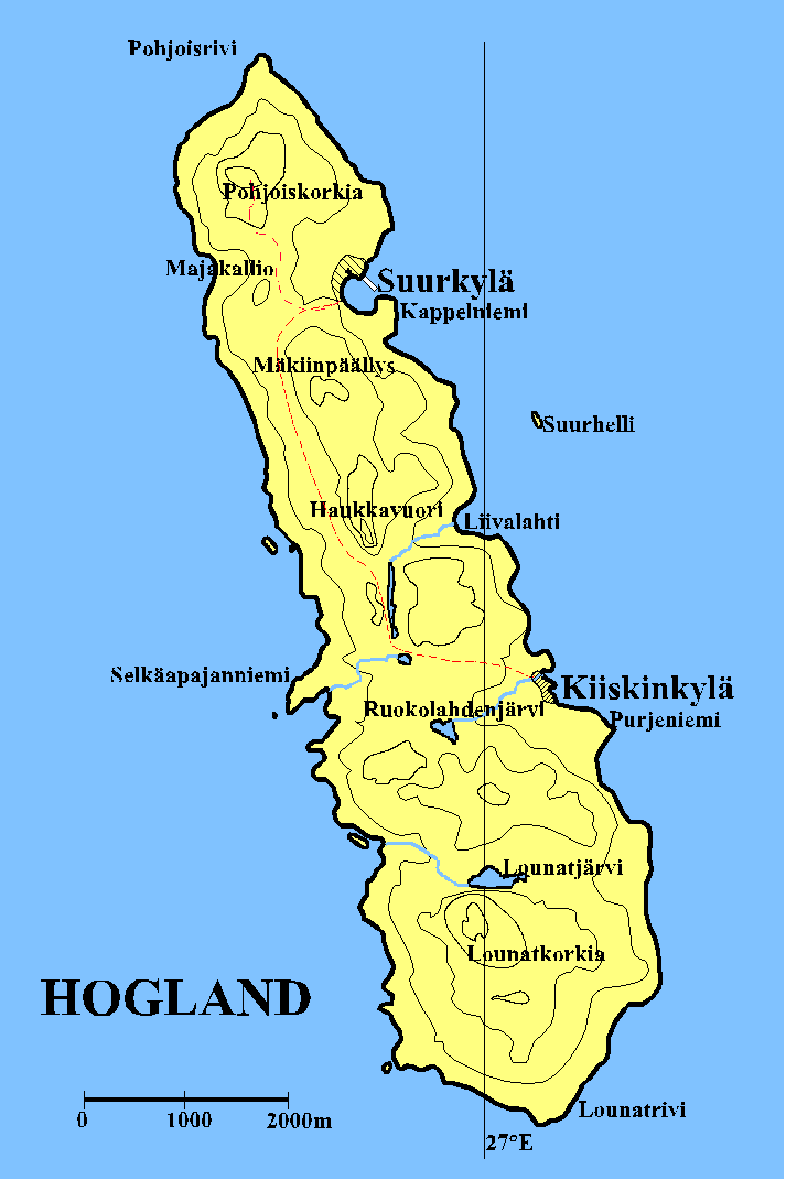 Map of Hogland island, created with Designer 4.0 from an old topographic map.